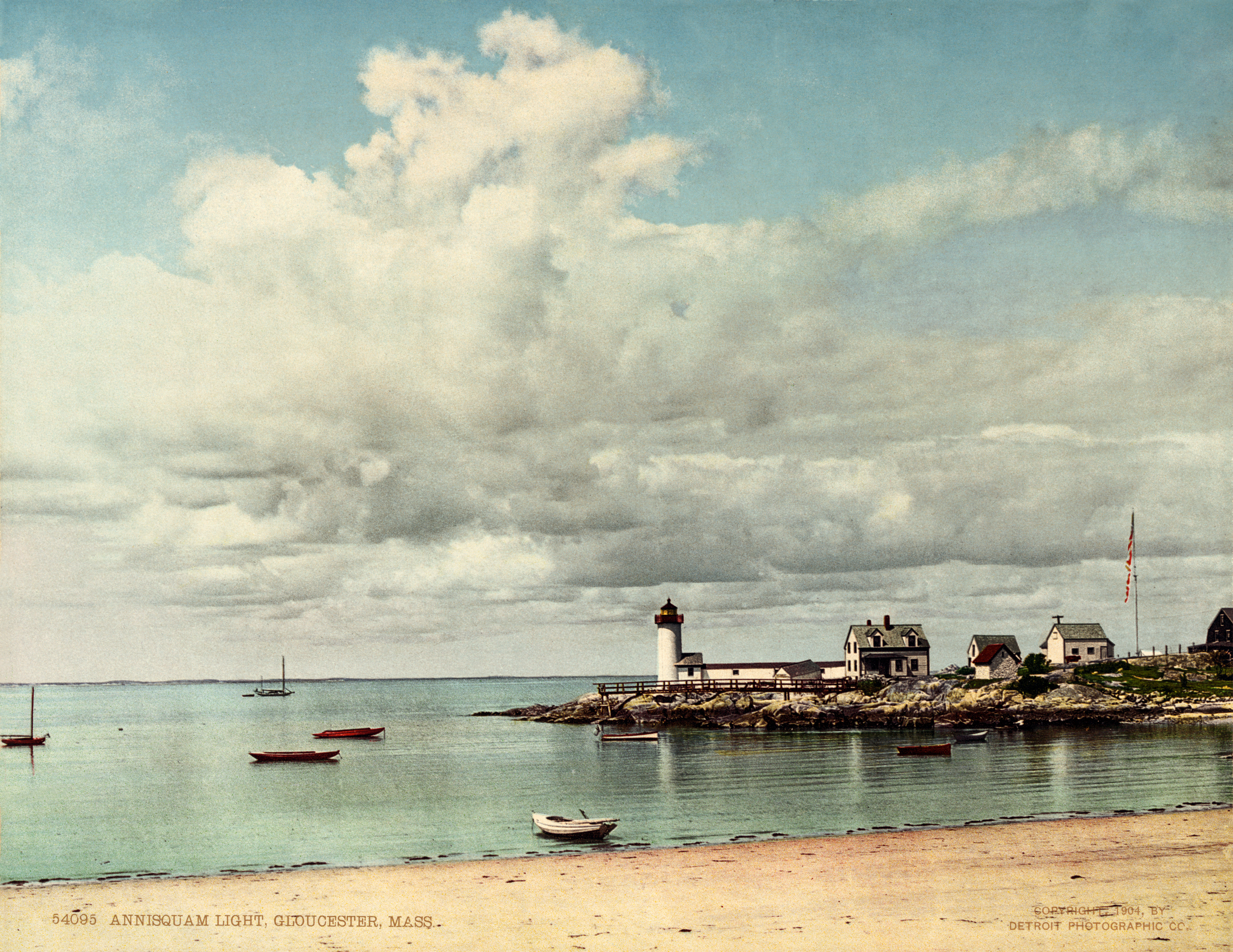 A photochrom postcard of the Annisquam Harbor Light